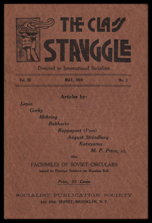 Cover of The Class Struggle magazine, May 1919 issue